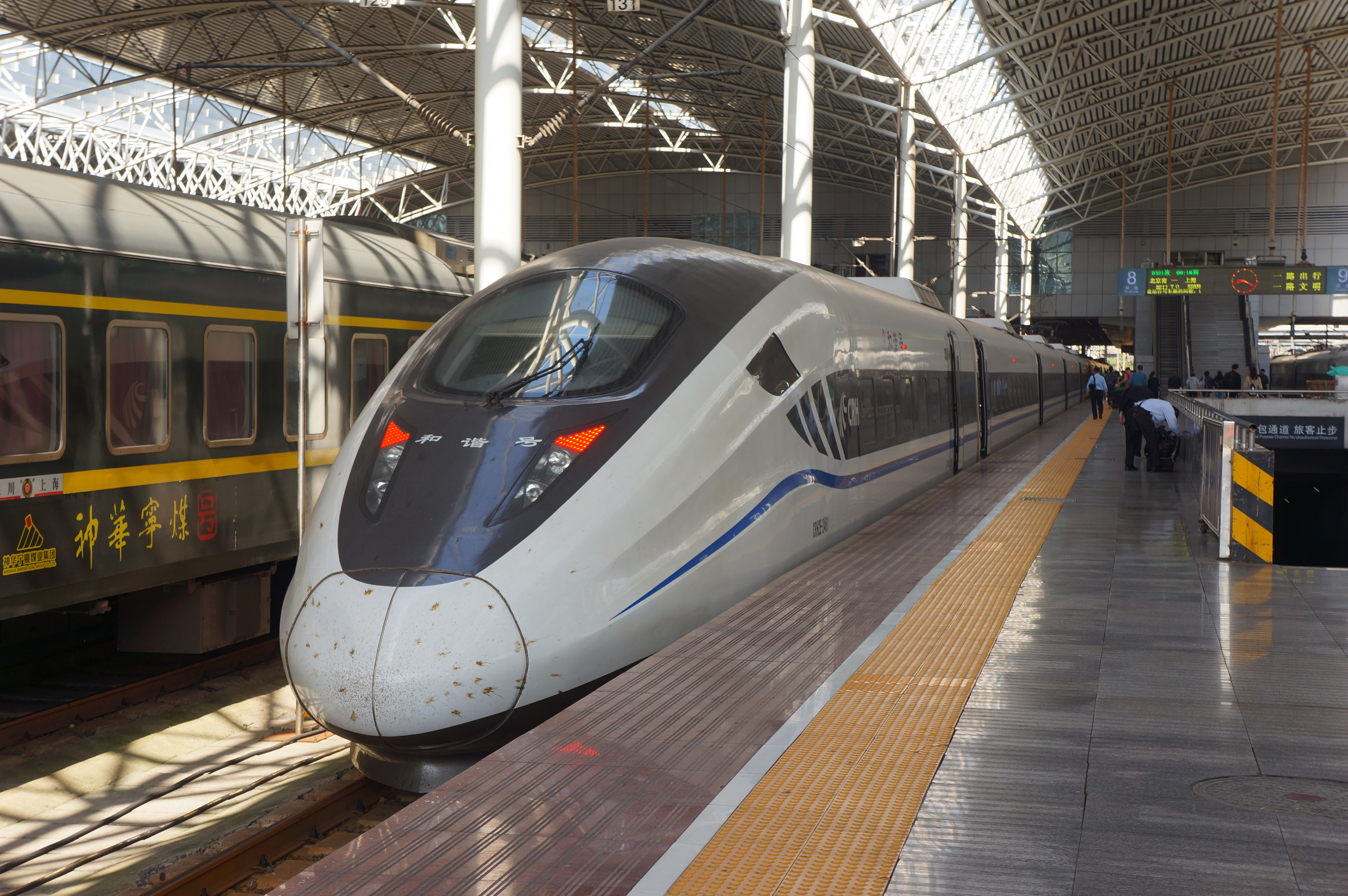 201704 D321 at Shanghai Station. A crew from D321 complaints about the mass increase of passenger that will occur on tonight's D322, due to the cancellation of D312 caused by handover issue.